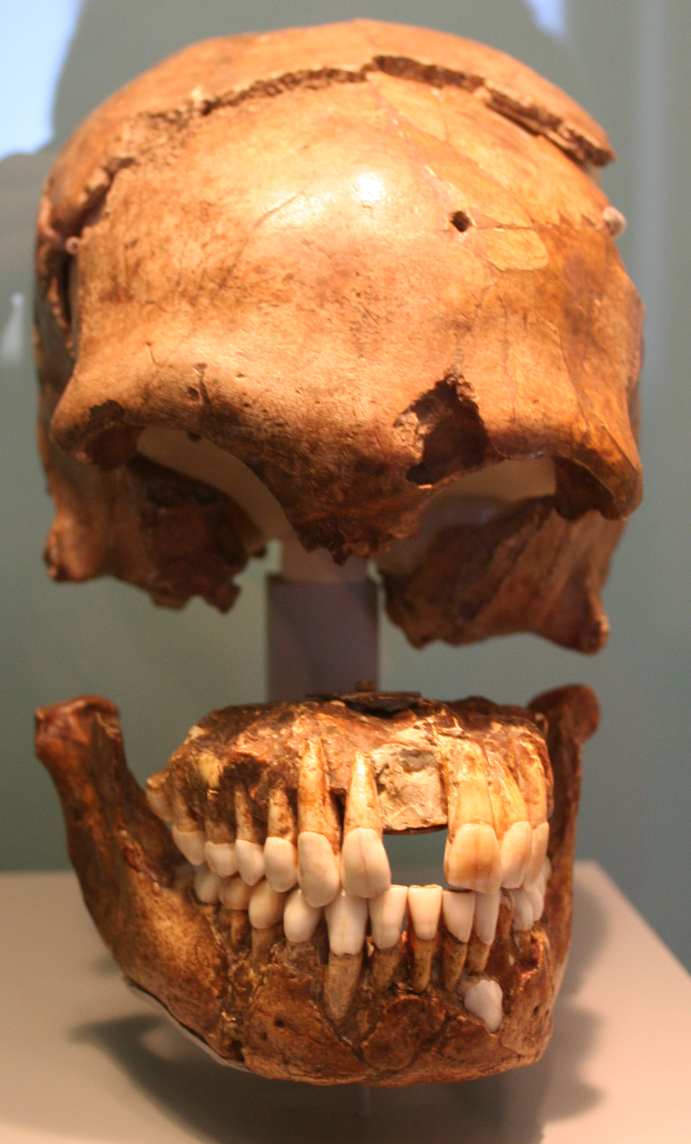 Cranium of Homo Neanderthalensis. Found at Le Moustier. Ca. 45.000 BC. Museum für Vor- und Frühgeschichte (Museum of prehistory and early history), Berlin.